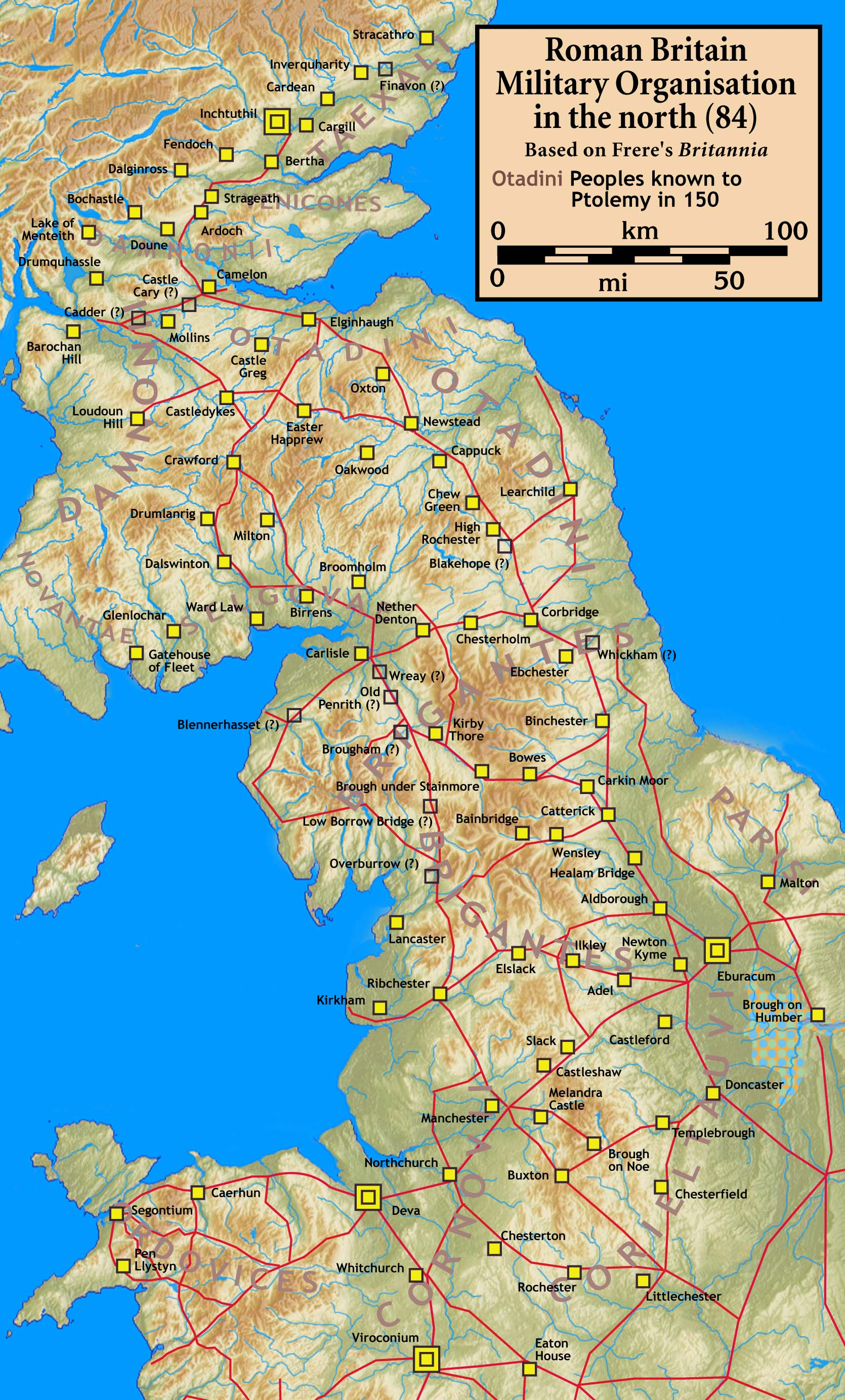 Roman Britain, Military Organisation in the north (84)